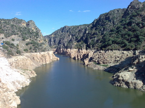 International Douro view from Miranda do Douro, Portugal.